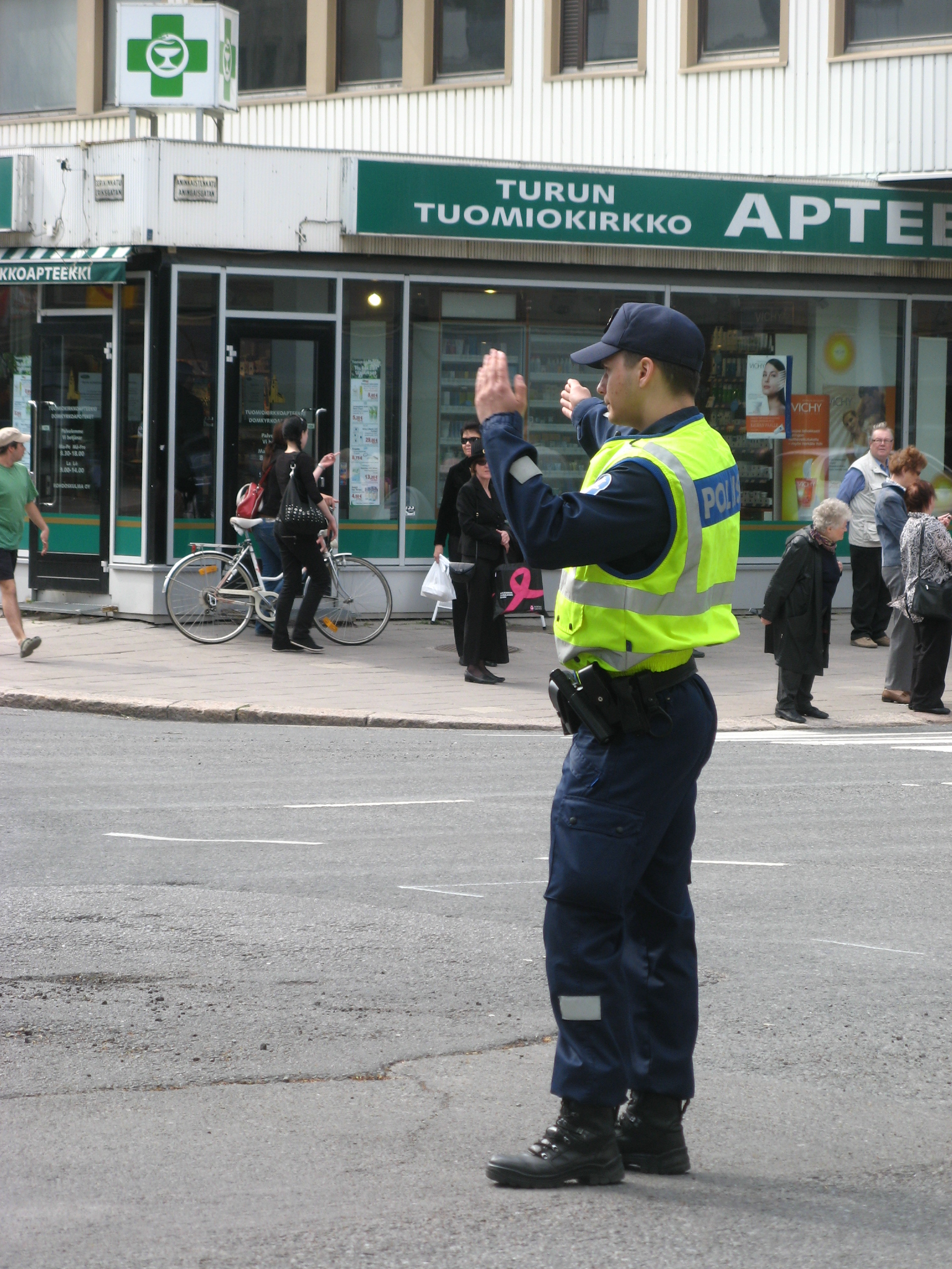 Policeman handling traffic during a parade in Turku in May 2011.